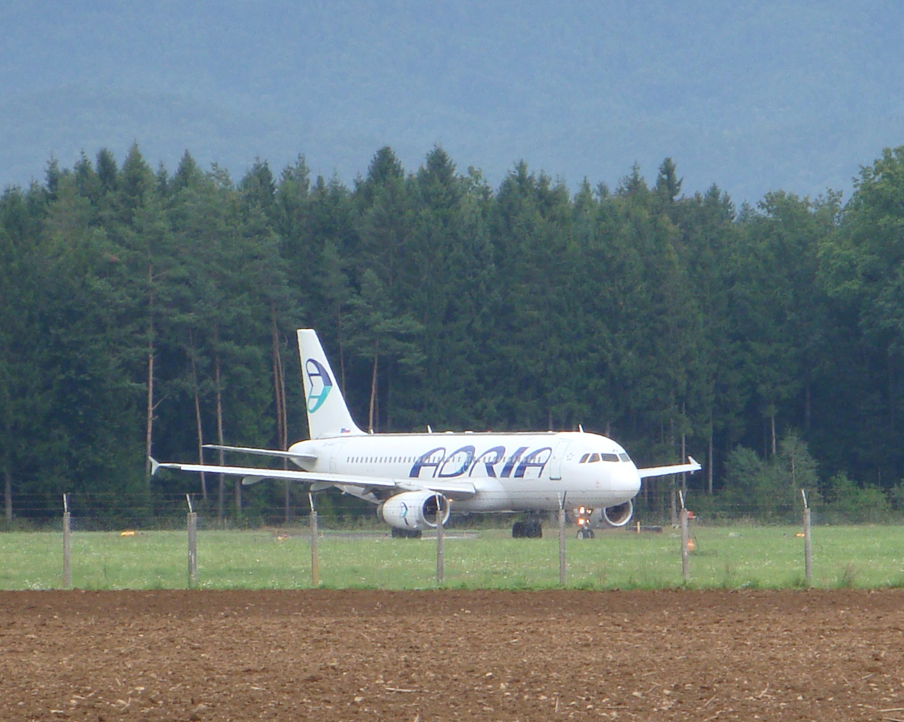 Airbus (Adria Airways) Airport Ljubljana